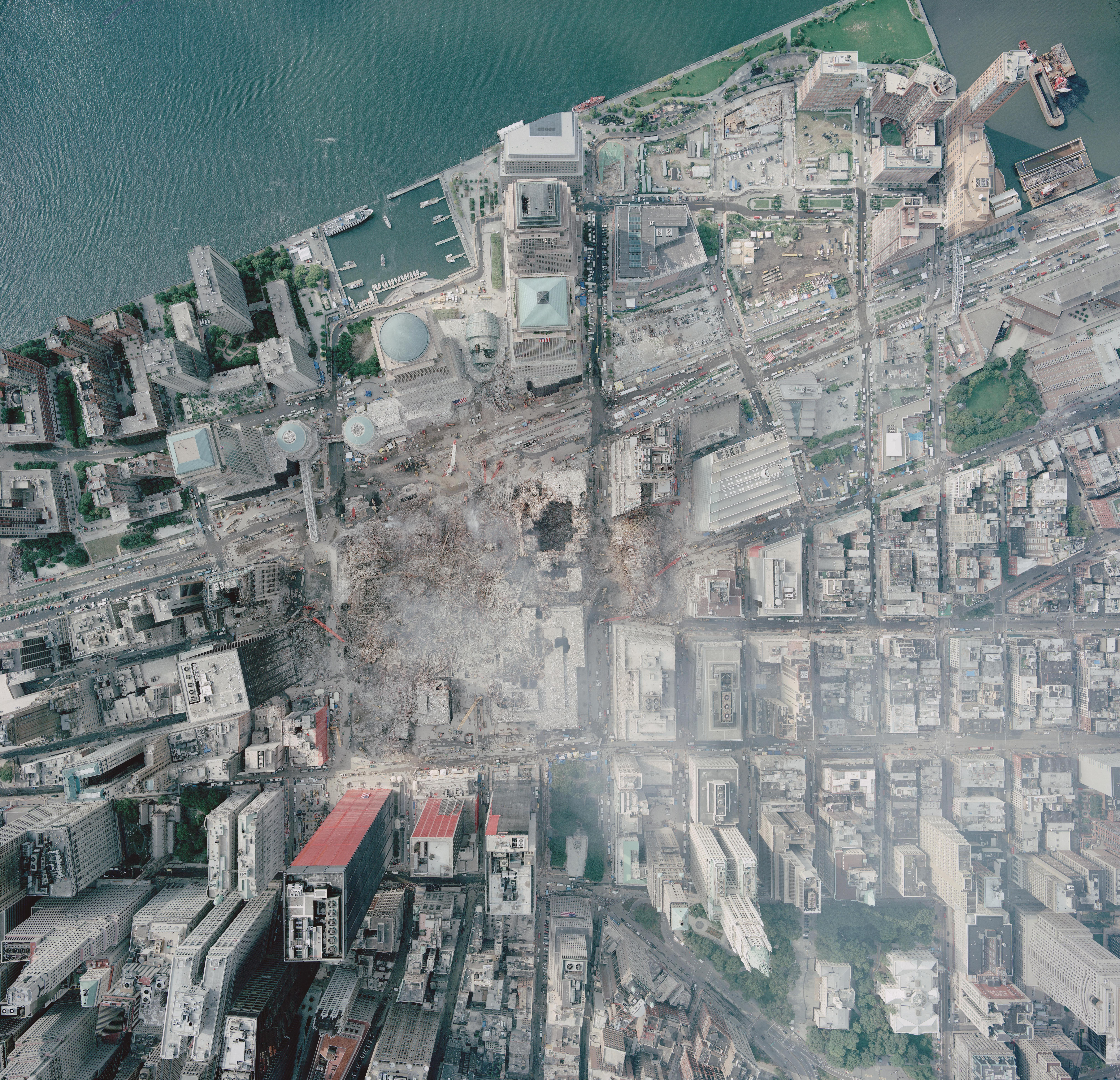 Due to the large size of this file, it may cause your browser to hang. Right click on the above link and save the picture to your computer to view. Image taken by NOAA's Cessna Citation Jet on Sept. 23, 2001 from an altitude of 3,300 feet using a Leica/LH systems RC30 camera.